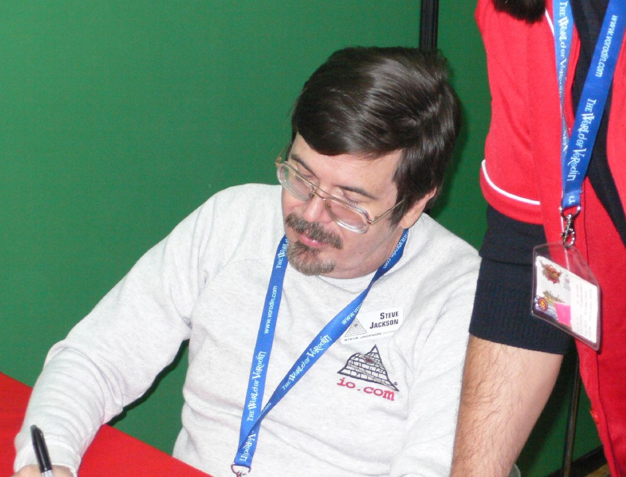 Steve Jackson signing autographs at Lucca Comics & Games 2006 gaming convention in Lucca, Italy.